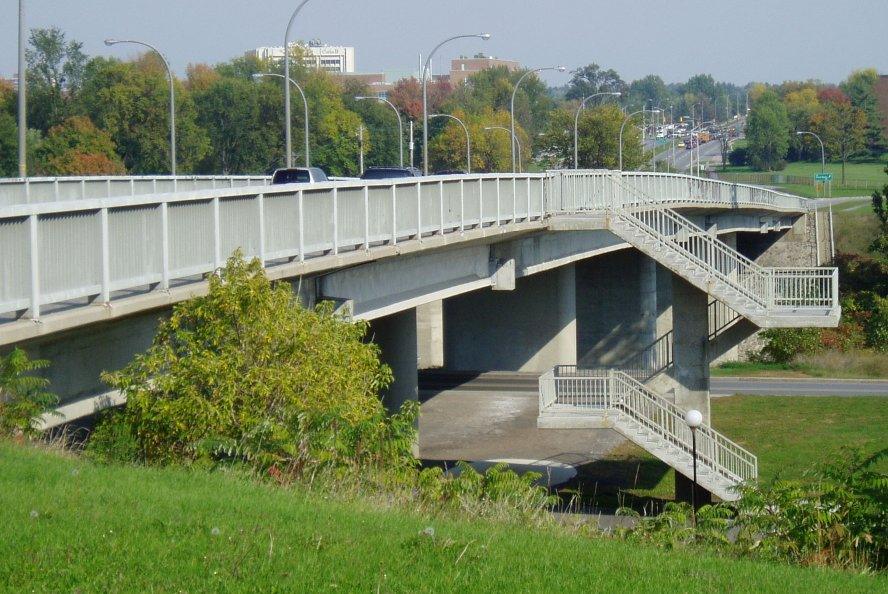 The Heron Road Bridge in Ottawa, taken by SimonP